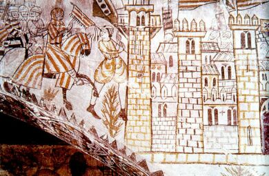 Mural from the castle of Alcañiz representing the entrance of James I of Aragon in Valencia